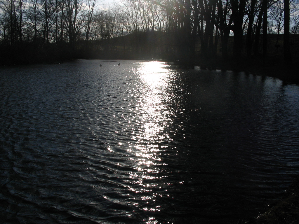 Pair of ducks swimming merrily in Malden Park